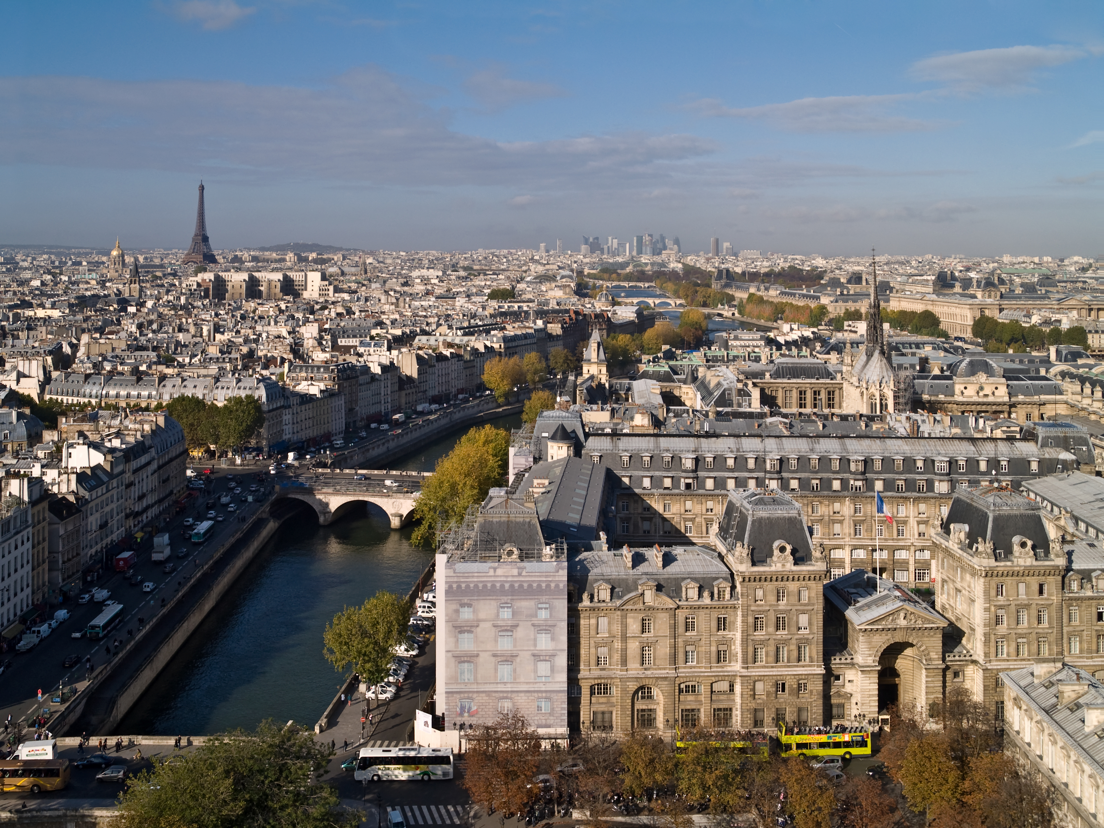 Paris seen from Notre-Dame de Paris towers